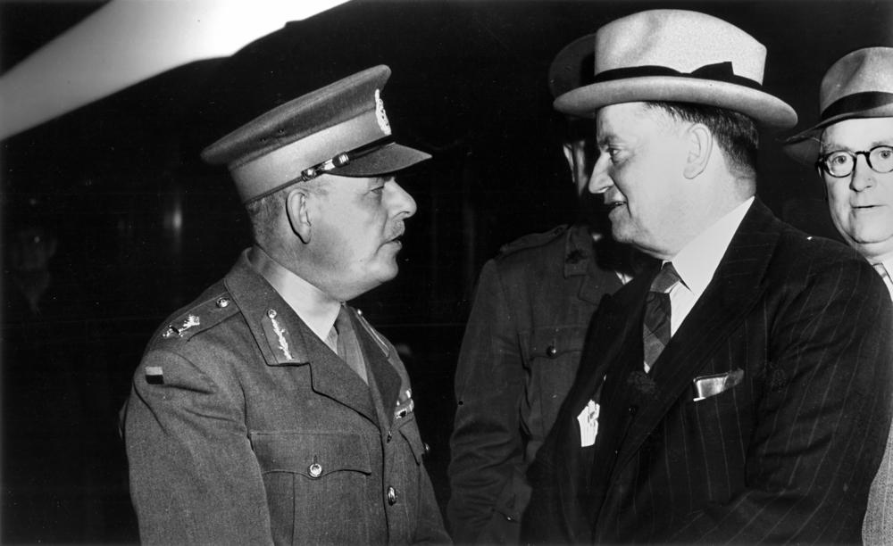 Major General J. M. A. Durrant meets Frank Forde in Brisbane, 1941 Mr. Forde, the new Minister for the Army, was met at the railway station, South Brisbane, by Major-General J.M.A. Durrant, G.O.C. Northern Command, when he arrived from Sydney yesterday. They immediately conferred about todays programme of camp inspections. (Description taken from Courier Mail, 13 October 1941).